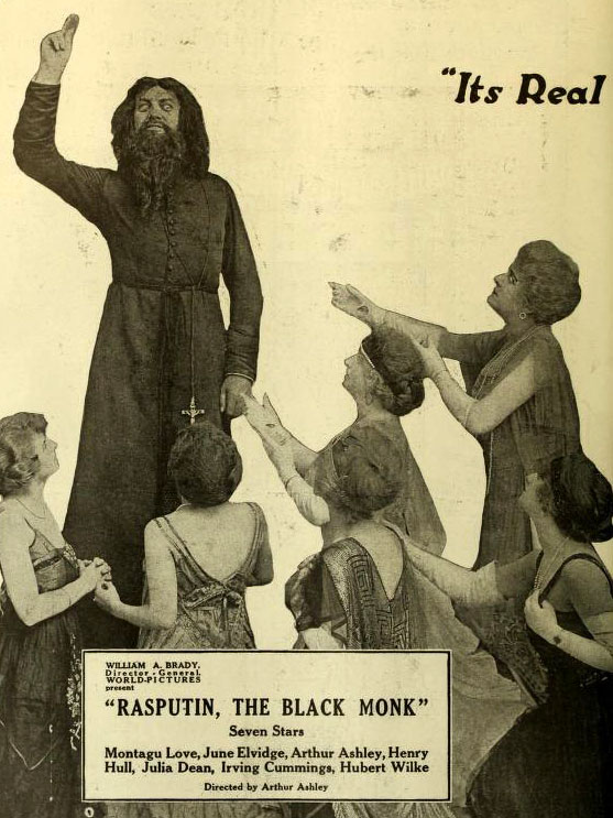 Advertisement in Moving Picture World, Sept 1917 for the American drama film Rasputin, the Black Monk (1917).